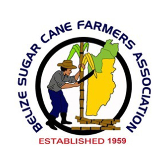 Logo of Belize Sugar Cane Farmers Association